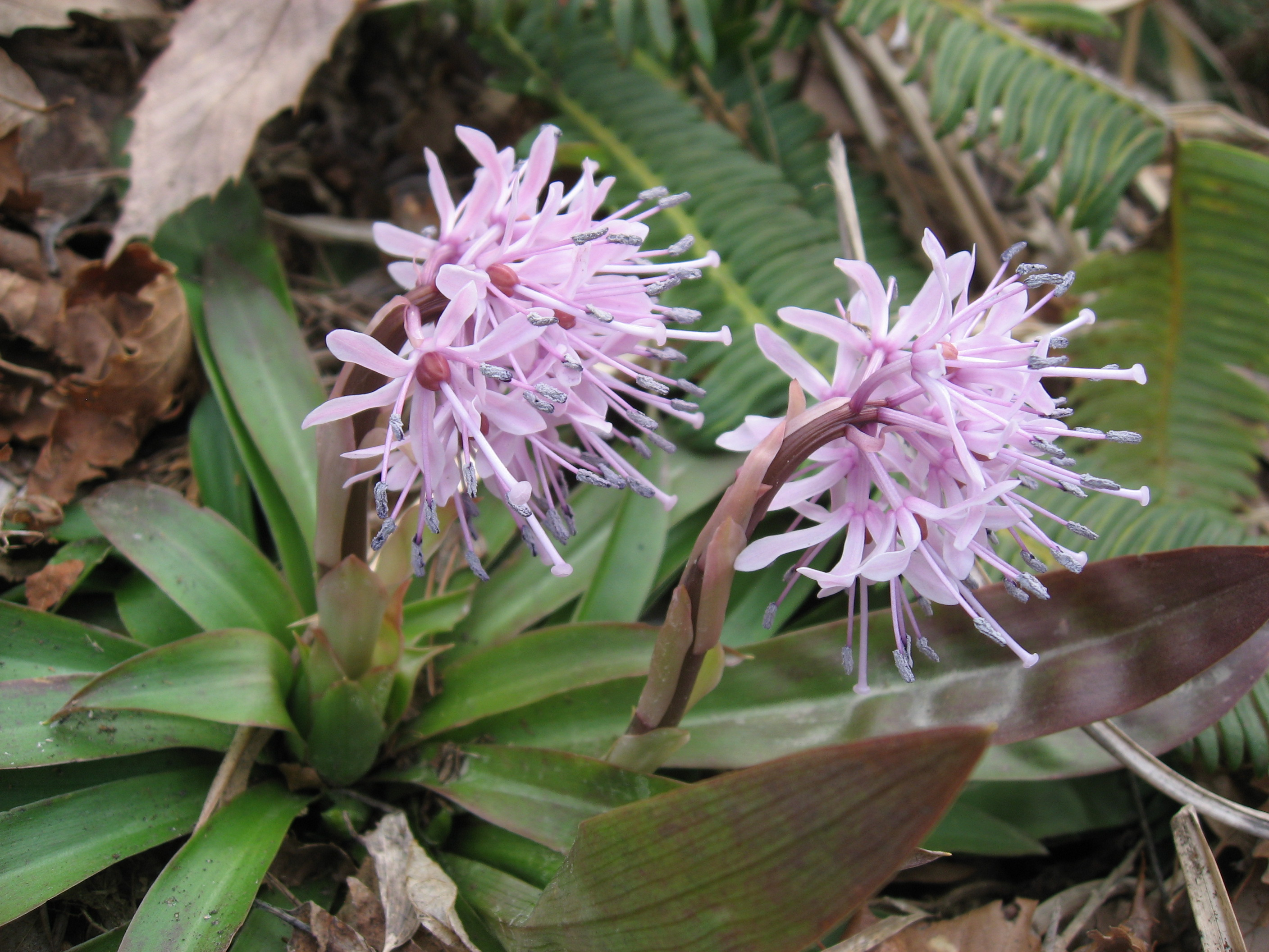 Heloniopsis orientalis,Aizu area, Fukushima pref., Japan